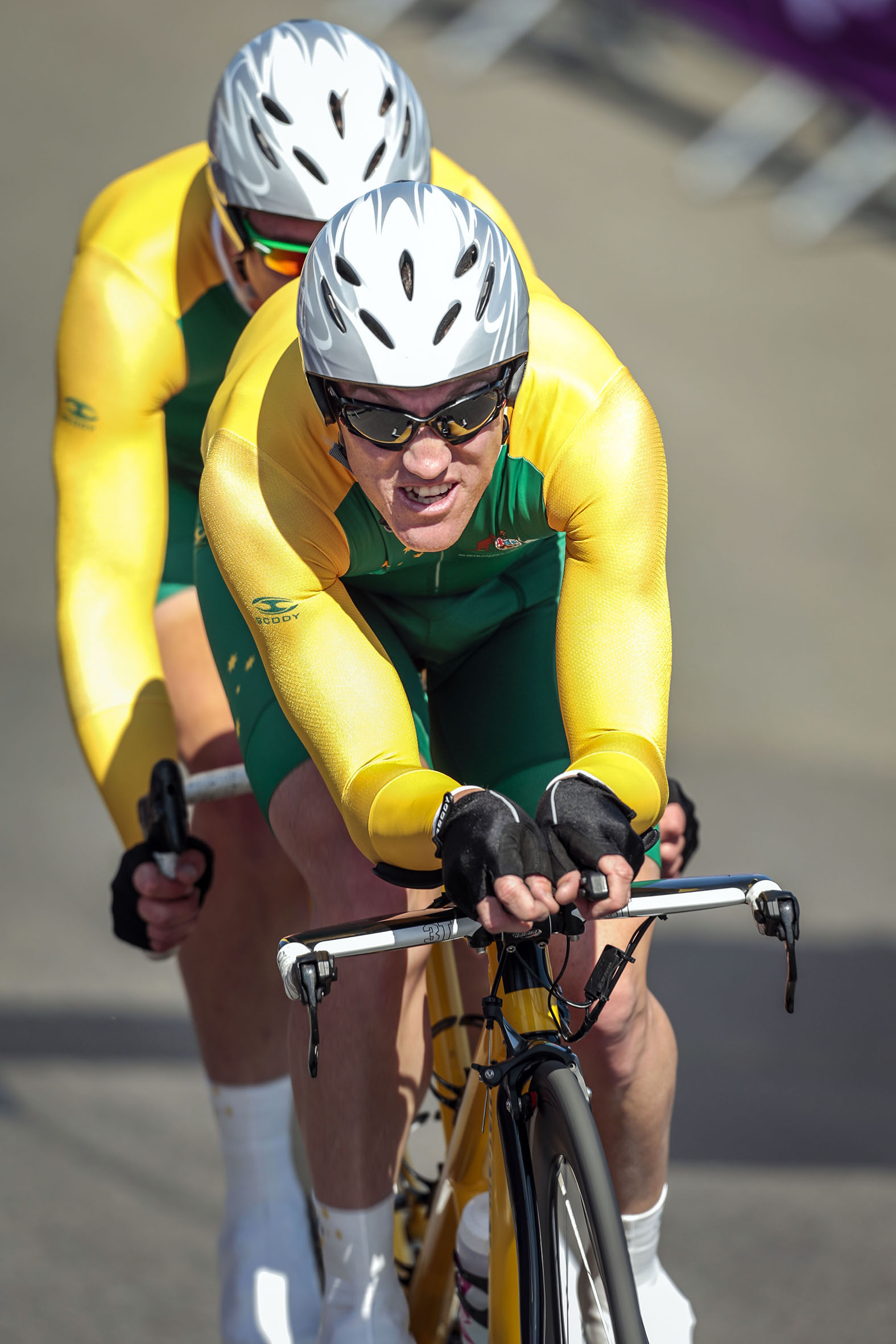 Photograph of Australian Paralympic team members Bryce Lindores & Sean Finning at the 2012 Summer Paralympic Games in London